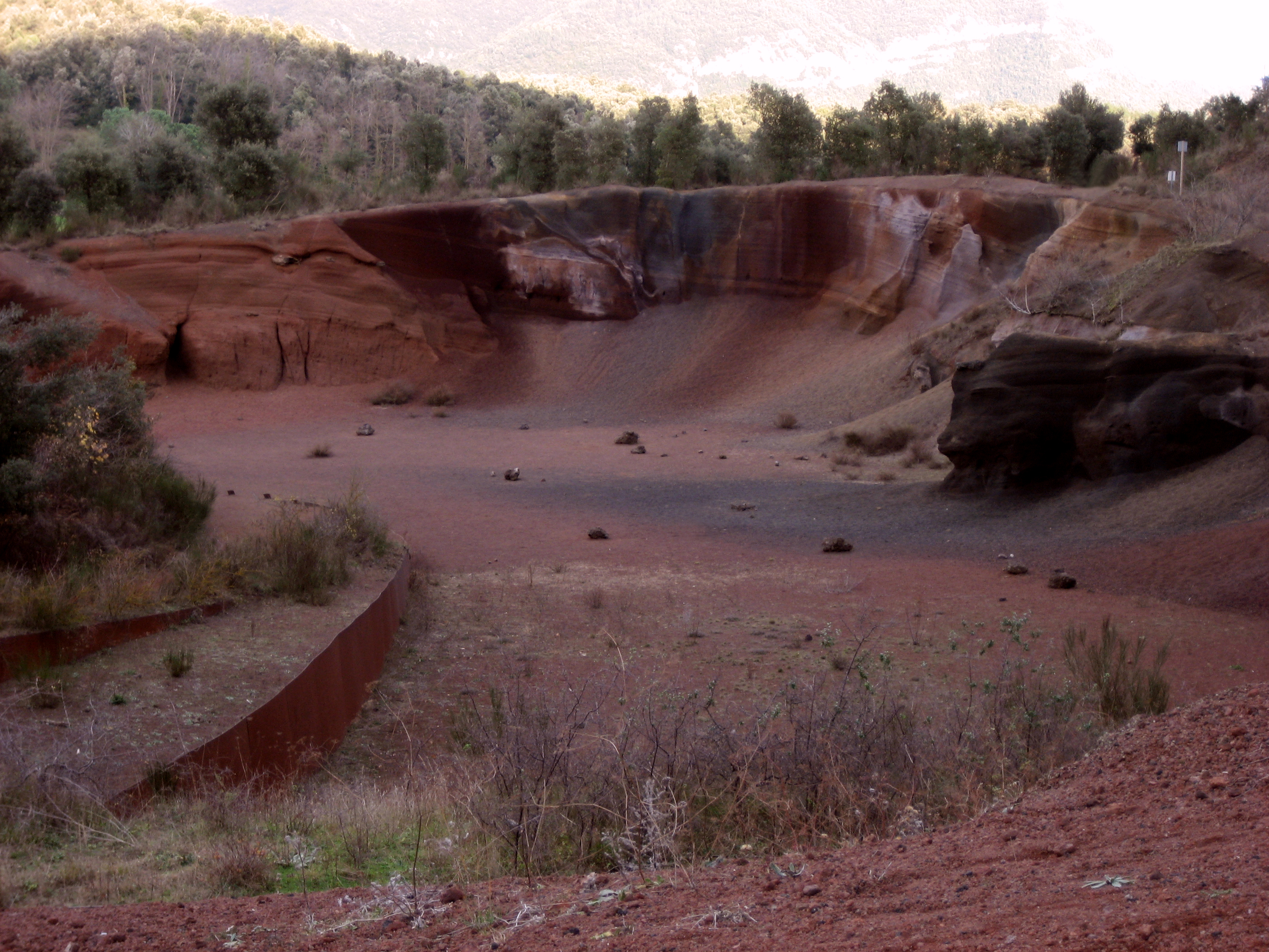 This Volcano is part of The Garrotxa Volcanic Zone Natural Park is a protected natural area covering a Holocene volcanic field (also known as the Olot volcanic field) in Catalonia, northeastern Spain